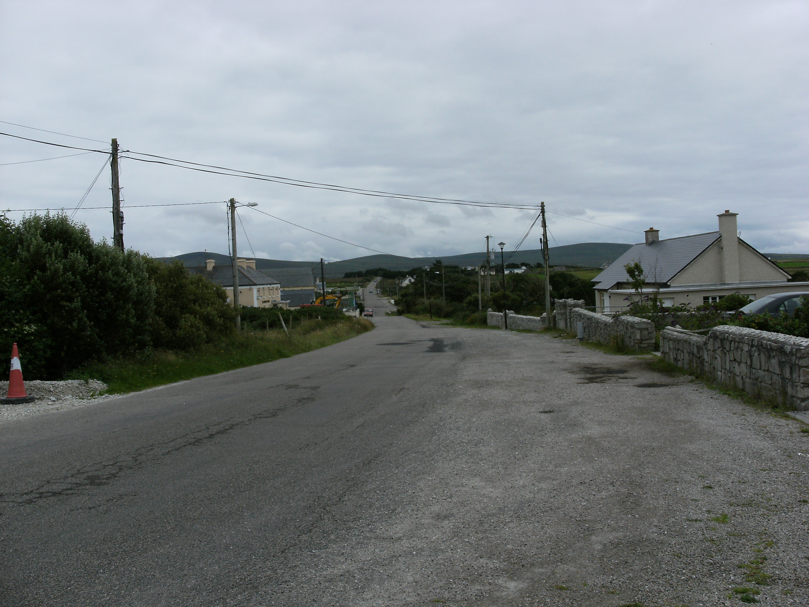 Inver village (Inbhear), Erris, County Mayo, Ireland.